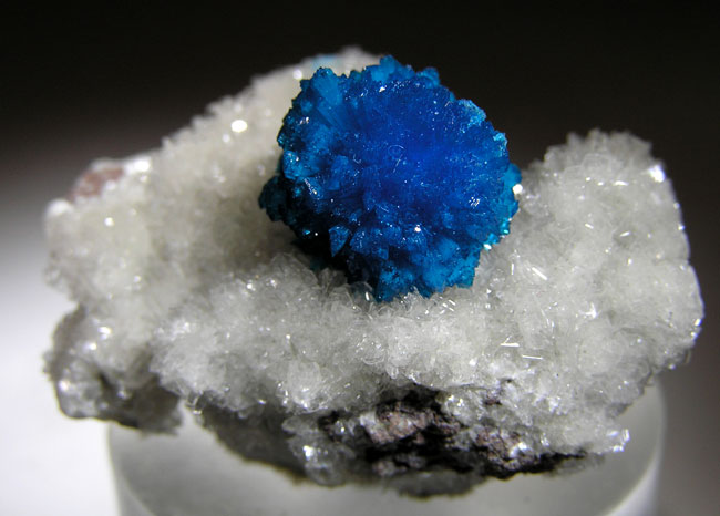 Cavansite Locality: Pune District (Poonah District), Maharashtra, India (Locality at ) A 1.4-cm ball of the brightest peacock-blue cavansite you could ask for, stark and isolated in the middle of a bed of sparky stilbite. 4 x 2.8 x 2.6 cm